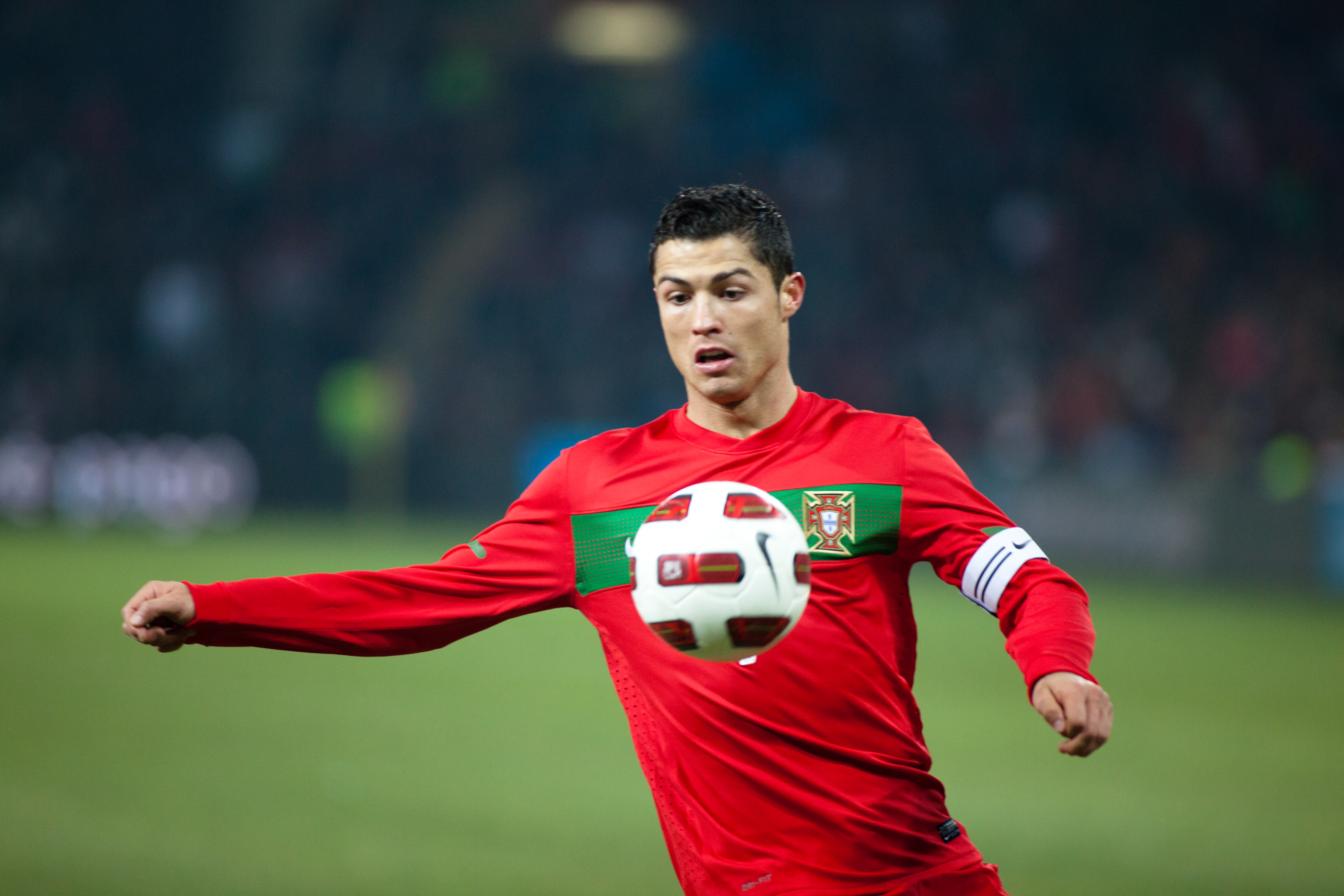 Cristiano Ronaldo during the friendly match Portugal-Argentina, in Geneva.